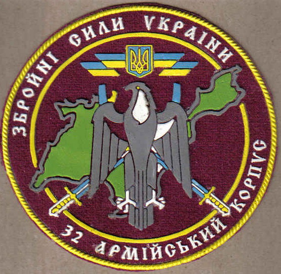 Shoulder Sleeve Insignia of the Ukrainian Army 32nd Army Corps Command